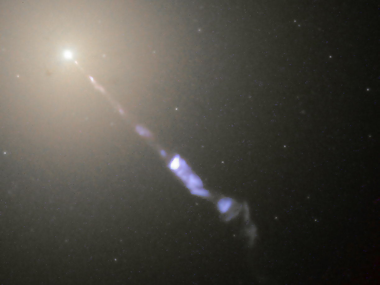 Black Hole-Powered Jet of Electrons and Sub-Atomic Particles Streams From Center of Galaxy M87